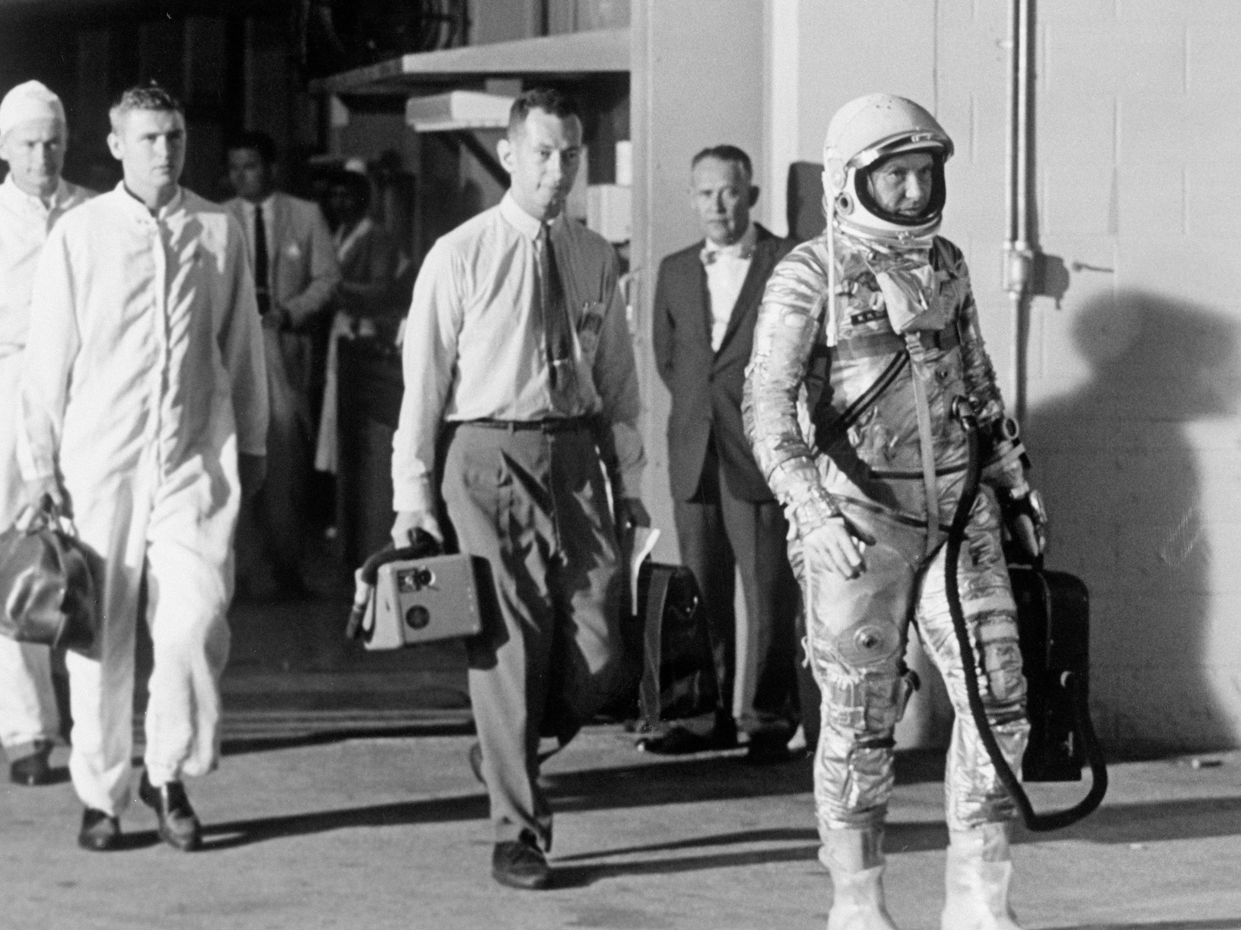 Astronaut Walter M. Schirra Jr., pilot of the Mercury-Atlas 8 (MA-8) earth orbital space flight, leaves Hanger "S" at Cape Canaveral on his way to his scheduled October 3, 1962 flight.